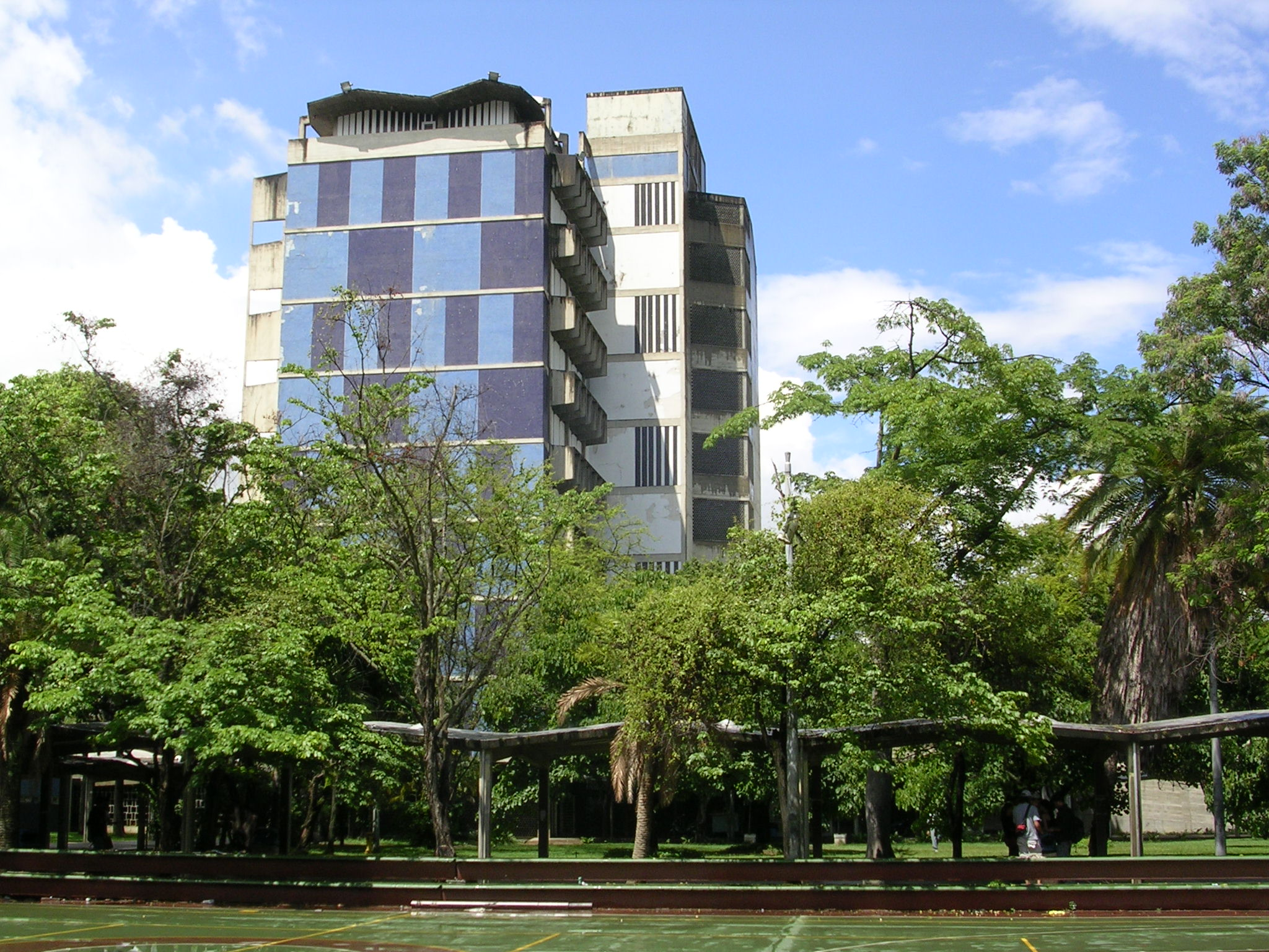 Central University of Venezuela, School of Architecture. Mural by Alejandro Otero. Modern movement art + architecture in Venezuela.